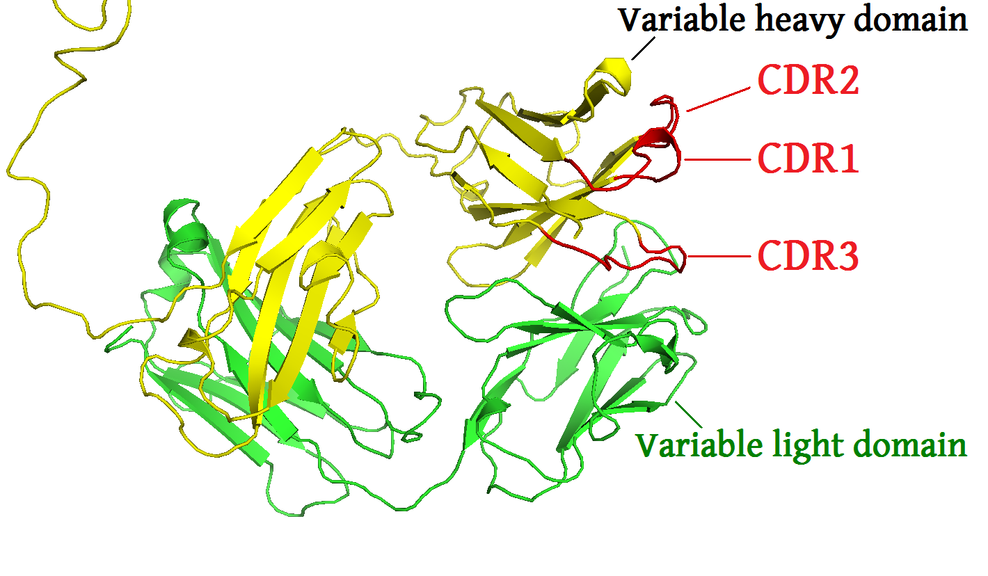 Part of an antibody with the heavy chain in yellow, the light chain in green and the complementarity determining regions (CDRs) on the heavy chain highlighted in red.